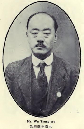 Wu Zongci (1879-1951)